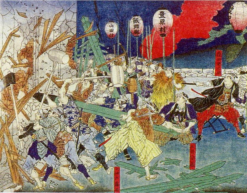 This is a scene of Riot of Ise or Ise Bodo in 1876.This picture was painted by Yoshitoshi Tsukioka.